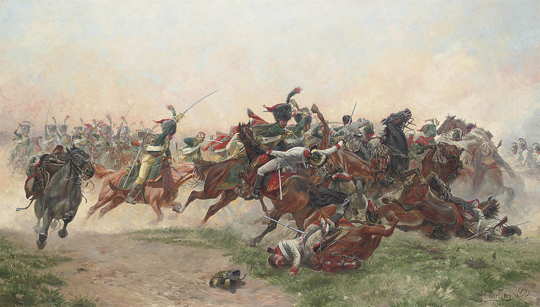 Chasseurs à cheval of the French Imperial Guard charging Austrian dragoons at the battle of Wagram.